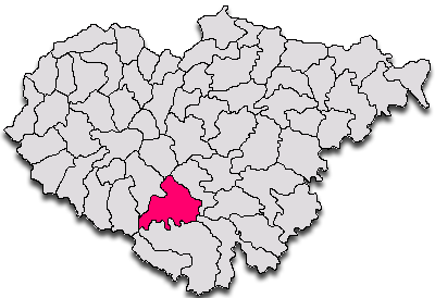 Map Salaj County Romania